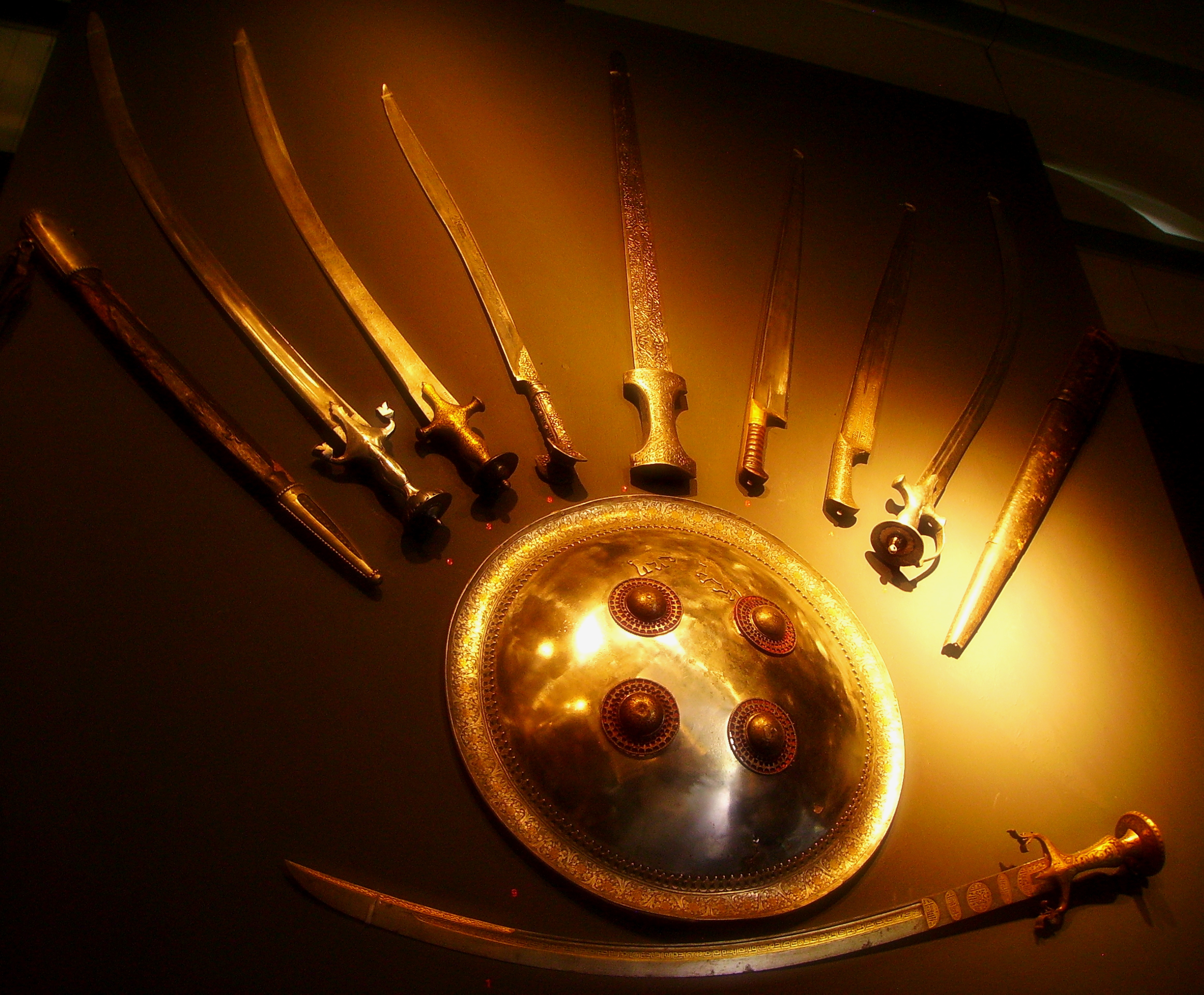 Indian and persian weapons exposed at the Ethnographic Museum in Warsaw